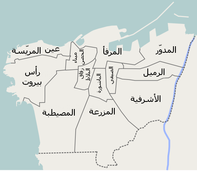 districts of Beirut in Arabic